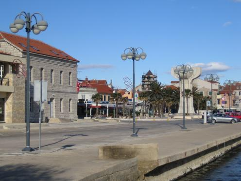 Promenade in Vodice in Croatia. Eigene Aufnahme.